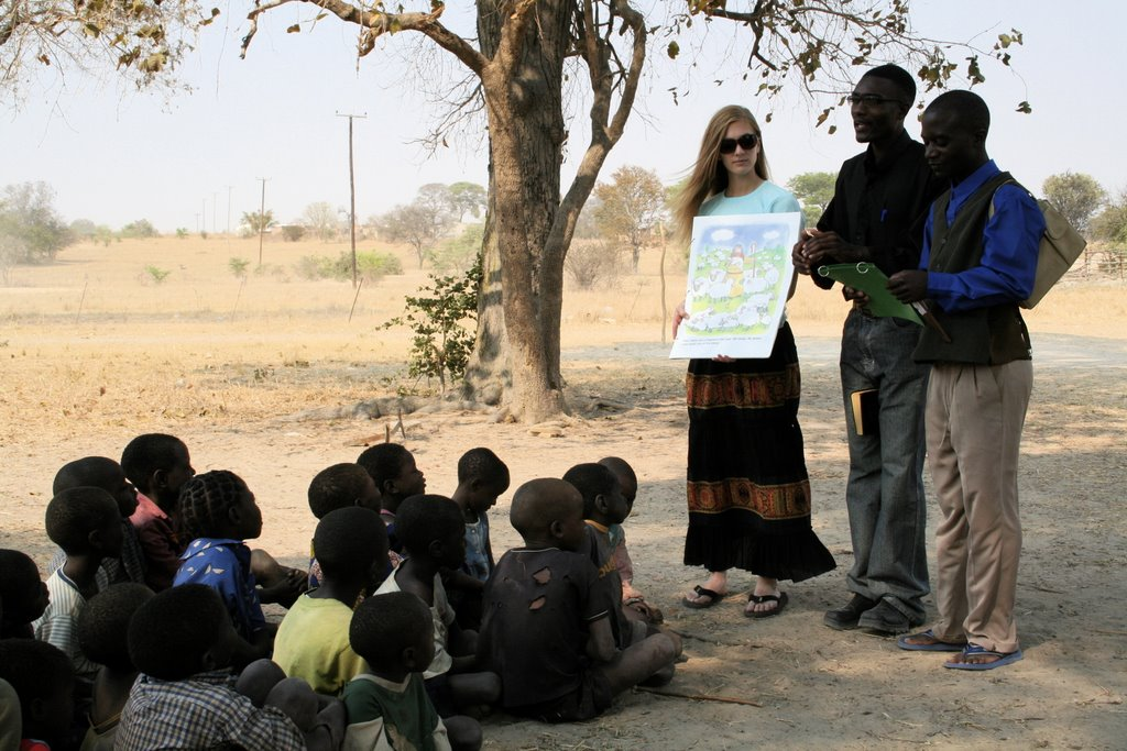 Bush-school in Zambia